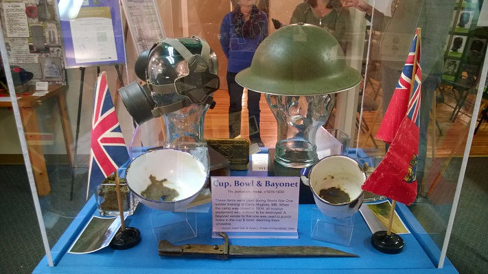 WWI and WWII artifacts on display at Settlers, Rails & Trails Inc (Argyle, Manitoba, Canada)